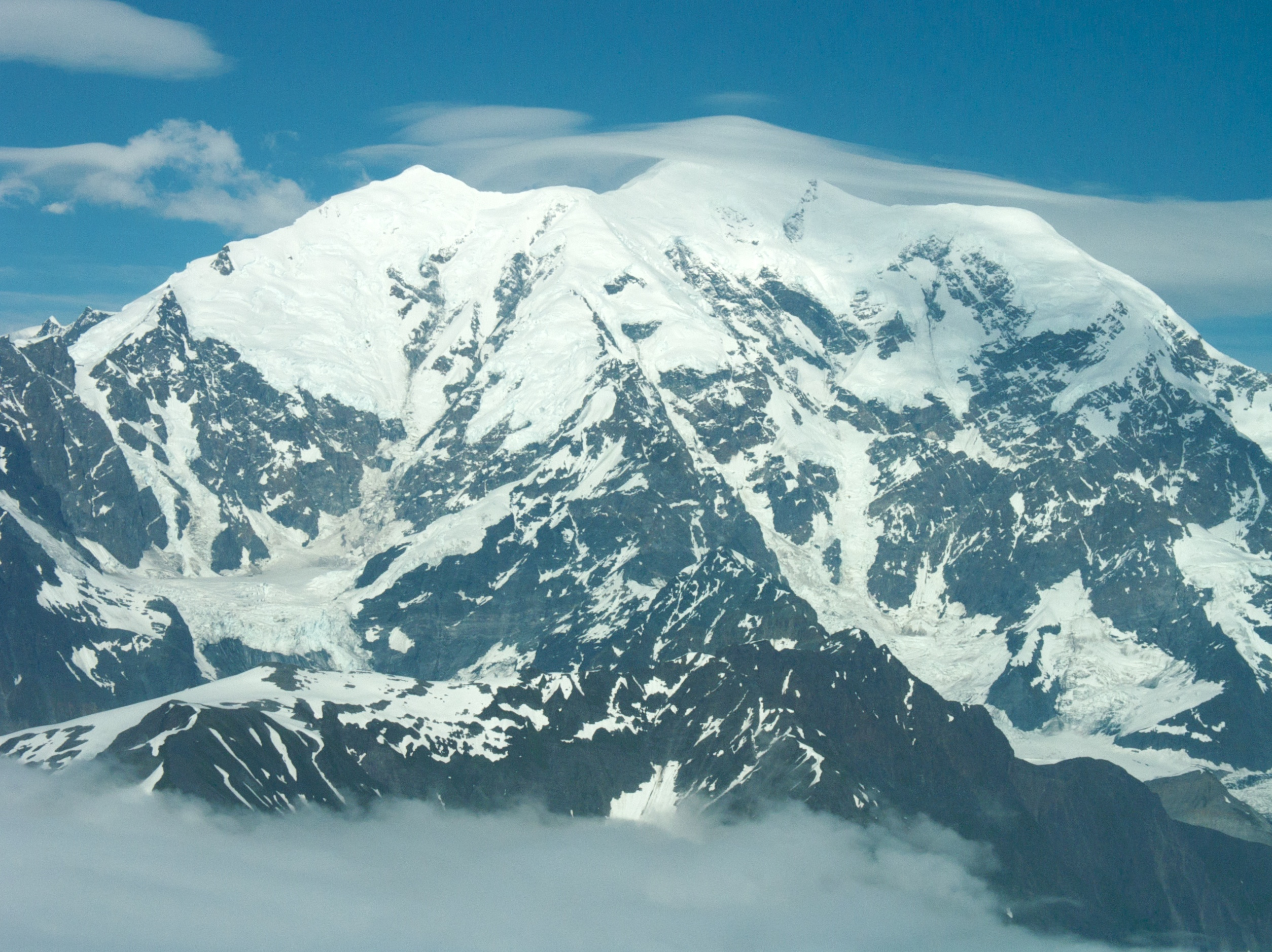 Mt Fairweather